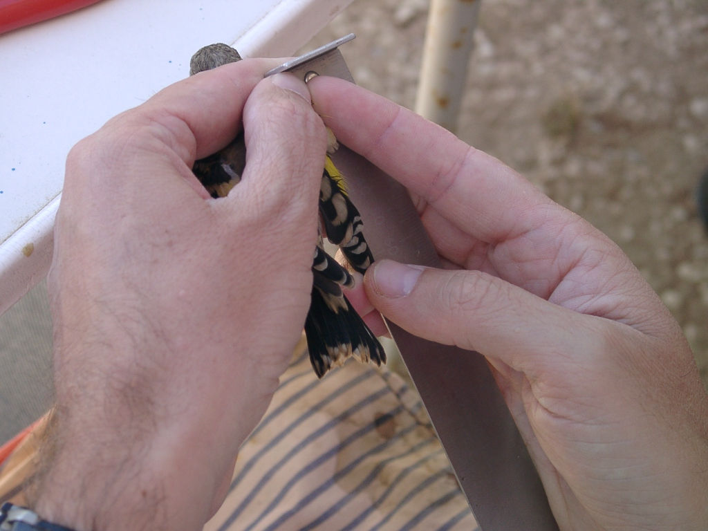 Bird ringing (bird banding) sequence, picture 7: Taking the full measure of the wing (European Goldfinch, Carduelis carduelis). Cruzinha, Portimão, Portugal.